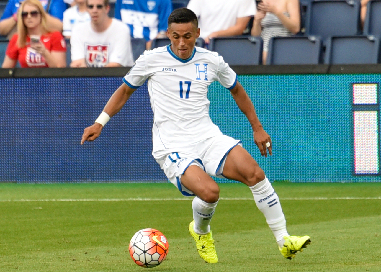 Andy Najar playing down the left with Honduras Men's National Team in a game against Haiti in the Gold Cup, Kansas City, Kansas. 13JUL2015